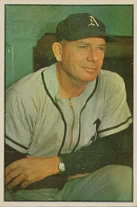 Major League Baseball manager Jimmy Dykes in 1953